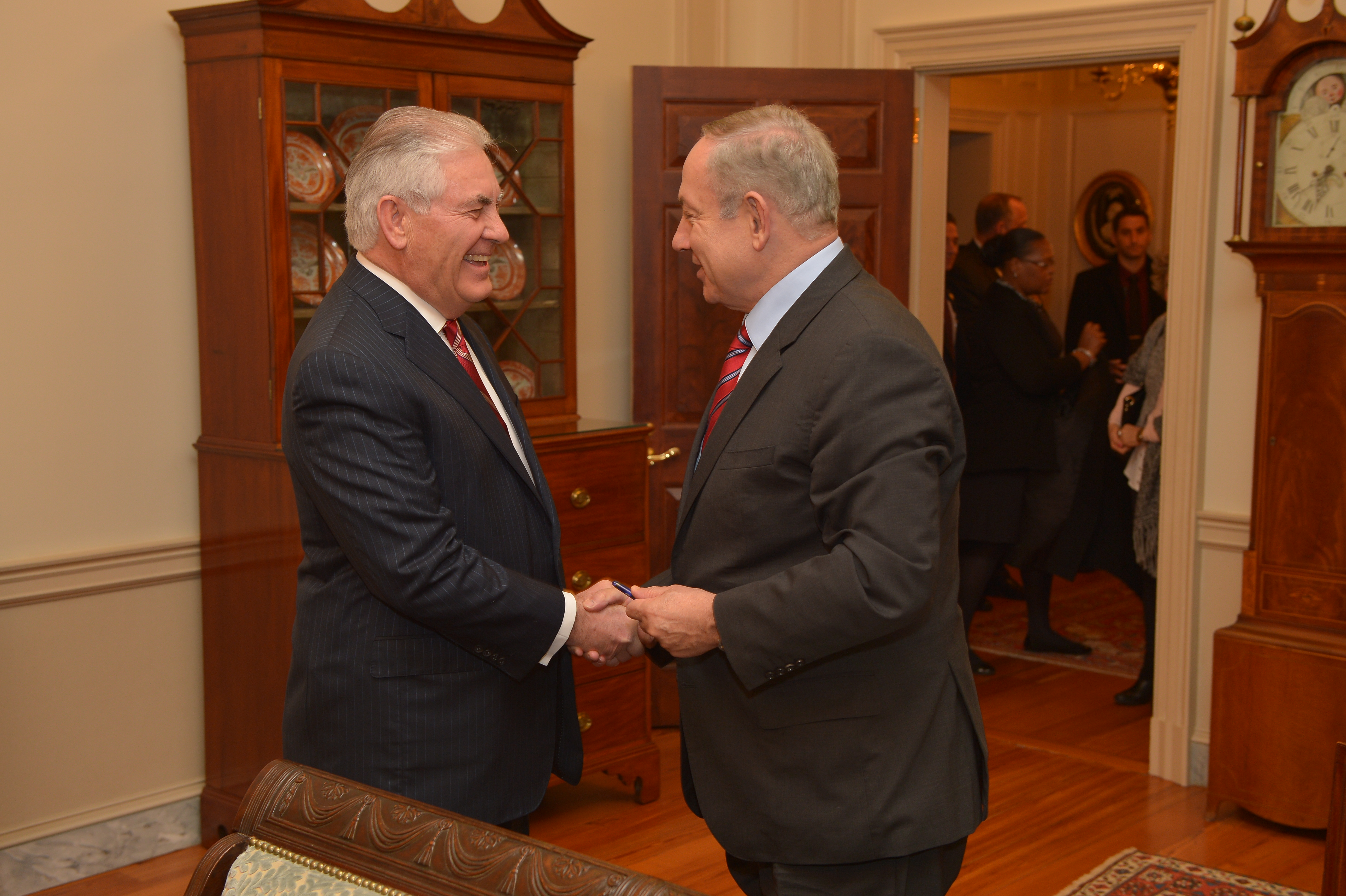 U.S. Secretary of State Rex Tillerson shakes hands with Israeli Prime Minister Benjamin Netanyahu before their working dinner at the U.S. Department of State in Washington, D.C., on February 14, 2017. [State Department photo/ Public Domain]